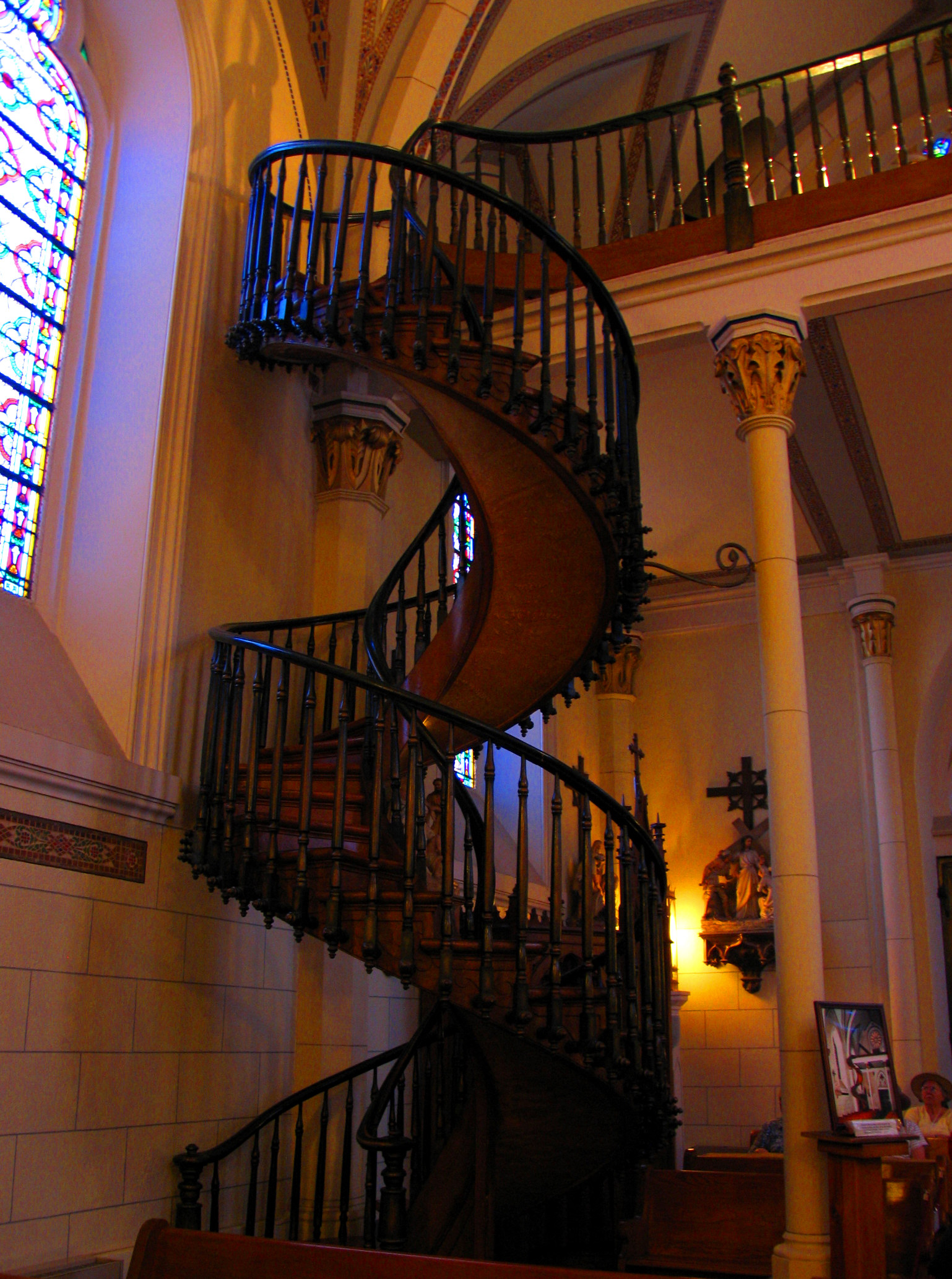 Staircase in Loretto Chapel in Santa Fe, New Mexico. The legend has it that the sisters of Loretto had no stairway to reach the choirloft of their new chapel and then one day a mysterious carpenter appeared from the desert and proceeded to build a marvelous spiral staircase. There are no nails in the stairway and no center support. The mysterious carpenter disappeared as he had come, without anyone knowing him or payment for his work. The railing is a relatively recent addition (about 100 years), because the sisters were afraid when climbing them without a rail.Miraculous staircase